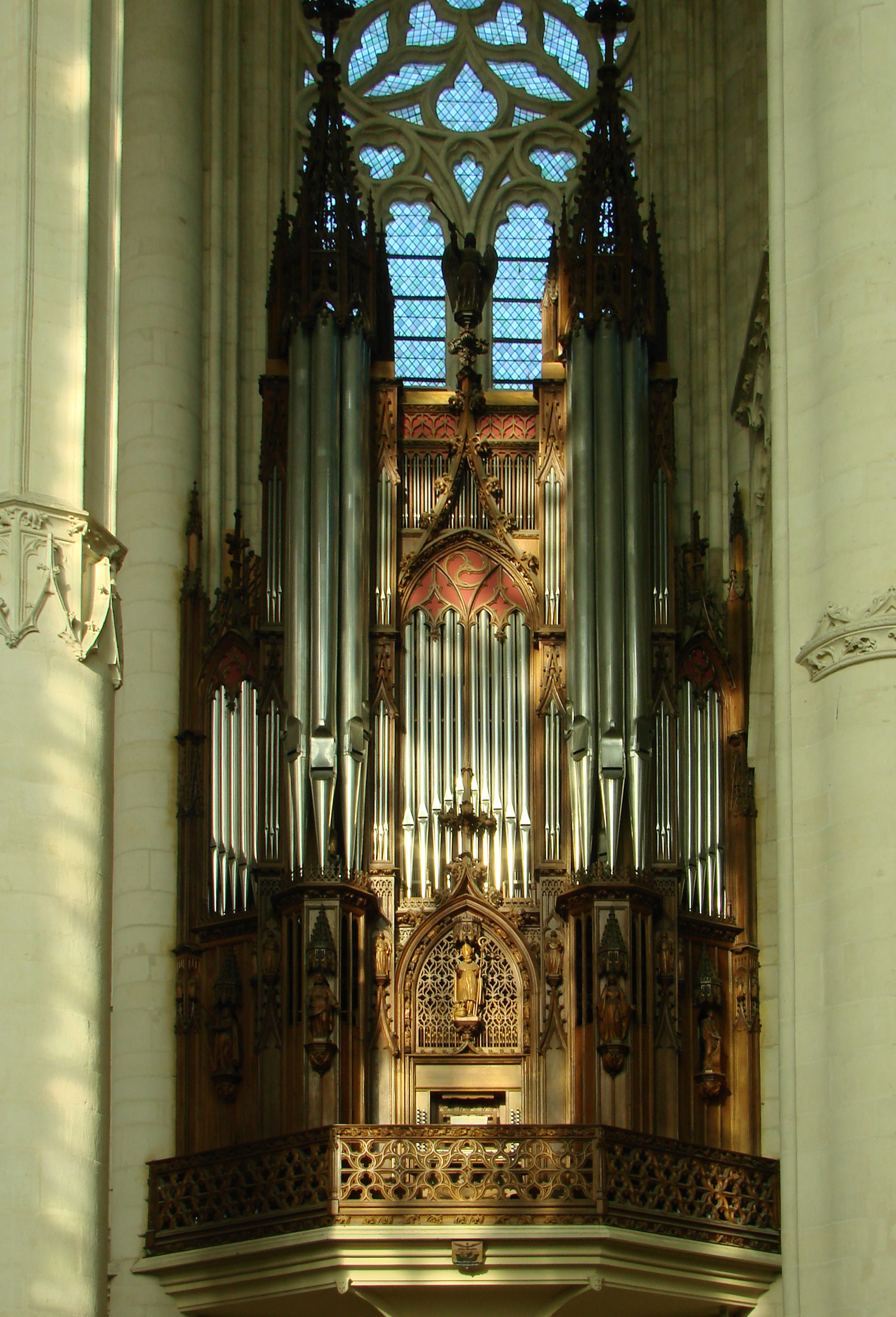 Saint-Nicholas basilica, Saint-Nicolas-de-Port, Meurthe-et-Moselle, Lorraine, France. The organ.